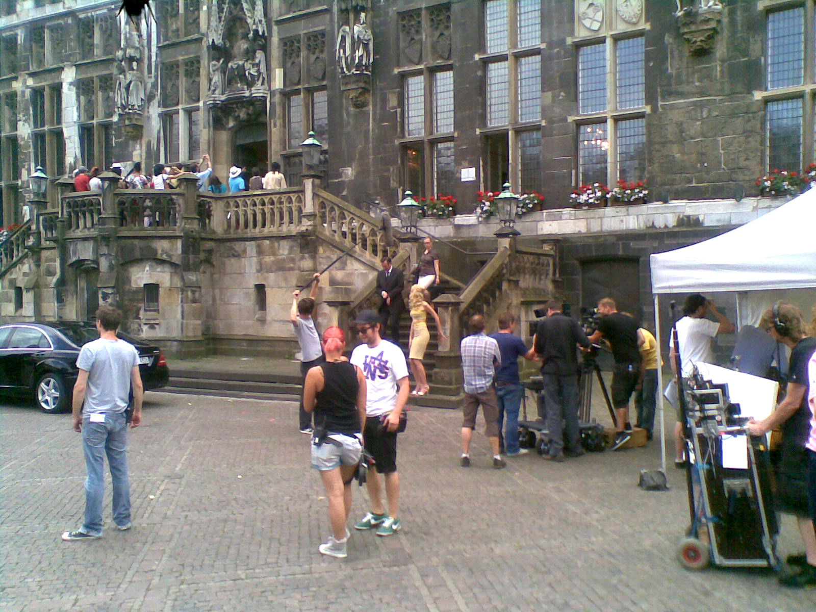 Filming of "Heiter bis tödlich: Zwischen den Zeilen", a German television series located in Aachen.